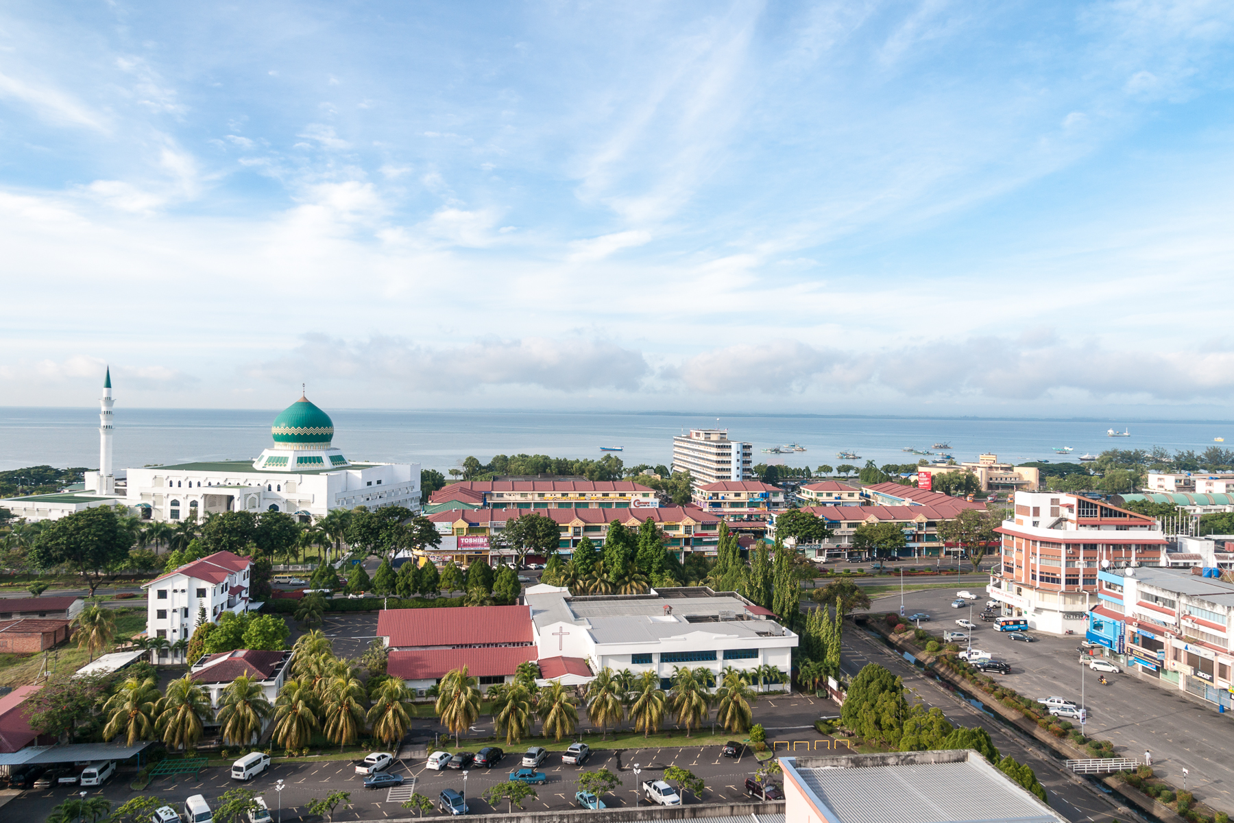 Tawau, Sabah: Al-Khauthar Mosque in Sabindo quarter; View from LA-Hotel